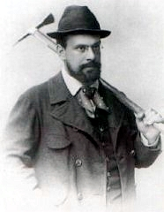 Julius Kugy (19 July 1858 — 5 February 1944) was an Austrian - Italian mountaineer and writer of Slovene origin